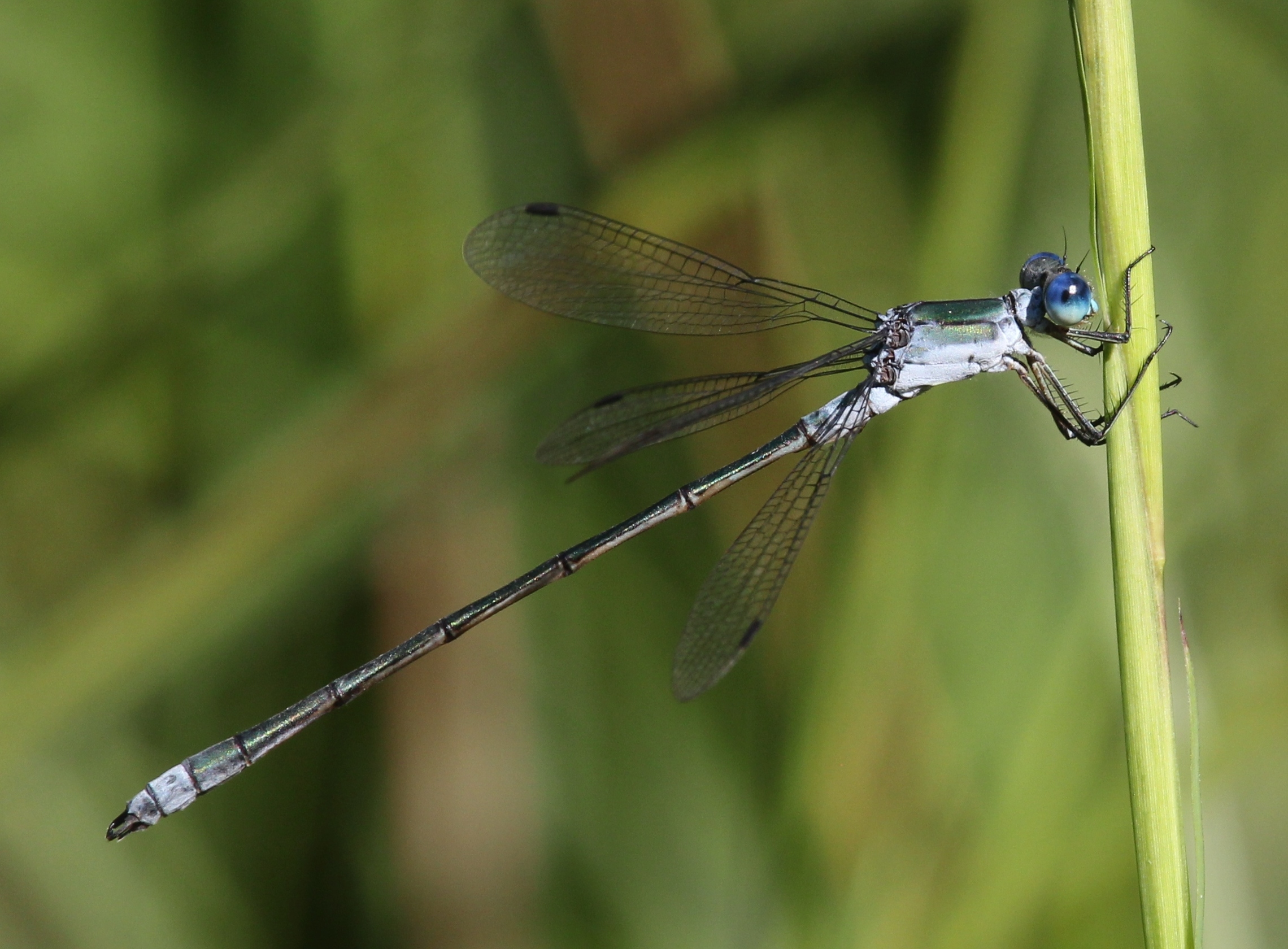 Male of Lestes sponsa in Yokkaichi, Mie prefecture, Japan.